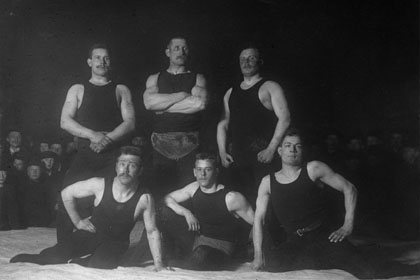 Early 1900s wrestlers from Finland. Backrow l-r: Carl Allén, Verner Järvinen and Anton Svahn. Frontrow l-r: Kelpo Vohlonen, Heikki Pennola and Knut Lindberg.